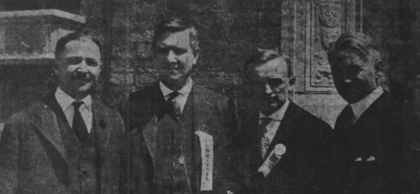 Photo featuring Byron S. Hule, L. E. Laird, Vice-chairman Joseph C. O'Mahoney, and Governor William B. Ross